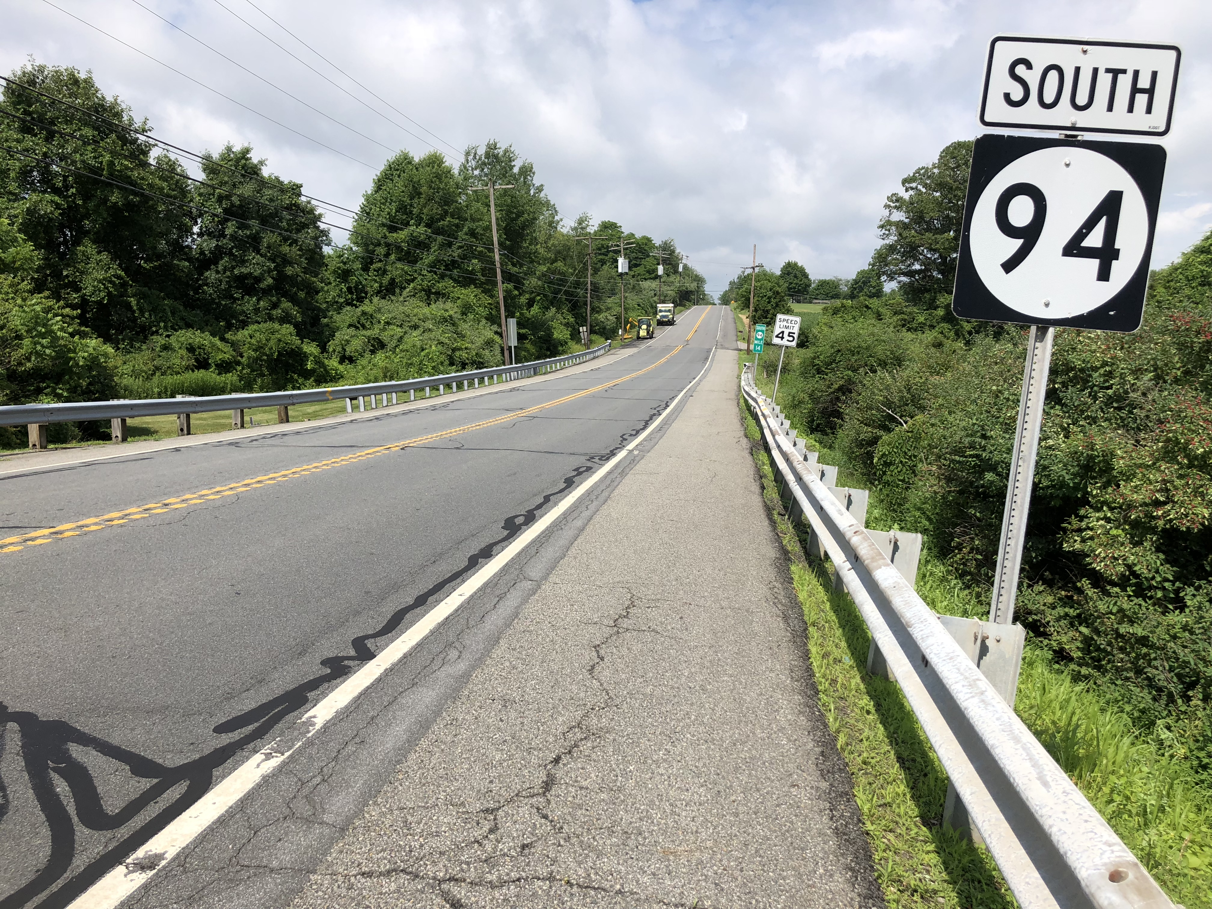 View south along New Jersey State Route 94 just south of Warren County Route 661 (Ramsey Road) in Frelinghuysen Township, Warren County, New Jersey